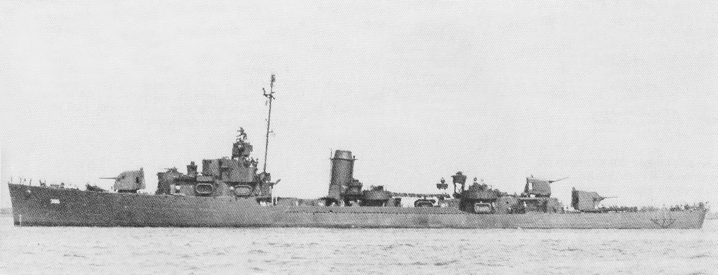 The U.S. Navy destroyer USS Jouett (DD-396) on 13 August 1945. In early 1945, Jouett was extensively rebuilt. Her Mk 12 127 mm/38 caliber guns in Mark 22 Single Purpose (surface action only) twin mounts were replaced by two dual purpose Mk 38 mounts fore and aft and a single Mk 30 turret aft. All torpedo launchers were removed, three 40 mm twin mounts and two quadruple mounts were added instead. The bridge was altered similar to the bridge of the Gearing-class destroyers. Her sistership USS Davis (DD-395) received the same modernization. However, all four surviving Somers-class destroyers were struck in 1946-47 and scrapped.